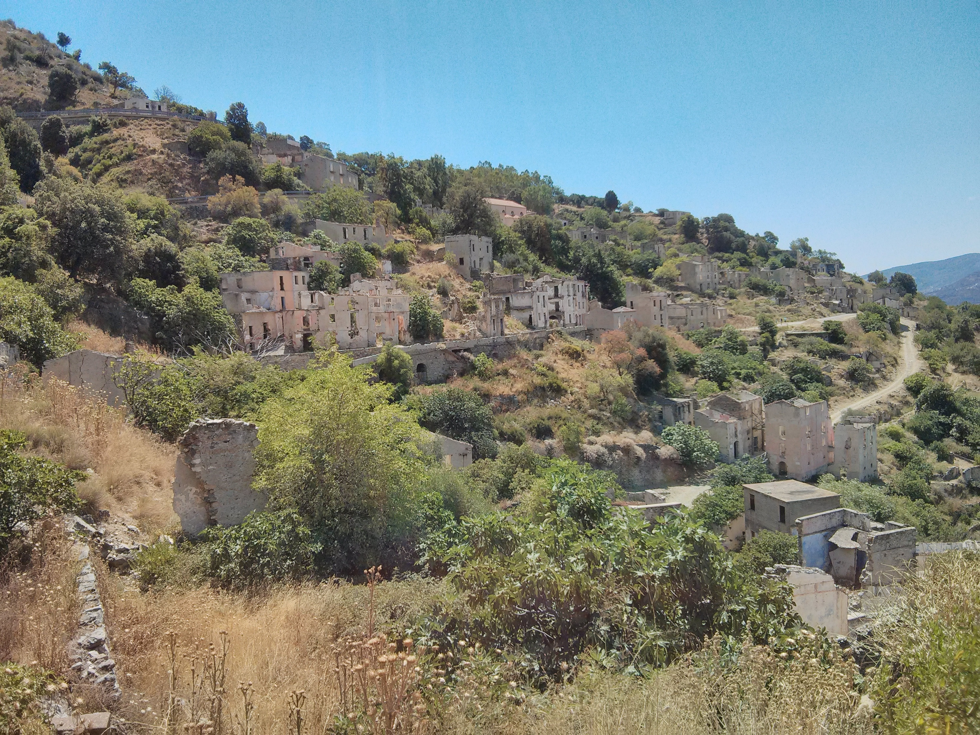 Gairo Vecchio, or "Old Gairo" in Sardinia.